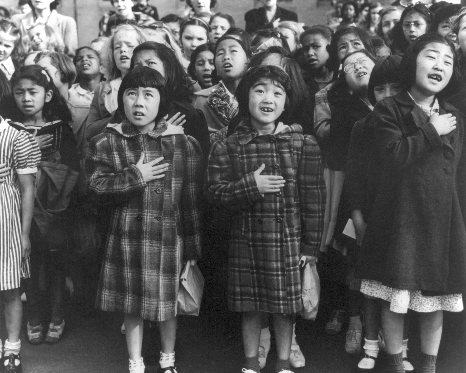 "San Francisco, Calif., April 1942 - Children of the Weill public school, from the so-called international settlement, shown in a flag pledge ceremony. Some of them are evacuees of Japanese ancestry who will be housed in War relocation authority centers for the duration."